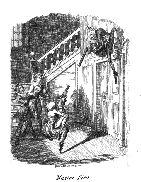 Illustration to E. T. A. Hoffmann, Master Flea, from George Soane, Specimens of German Romance (1826), vol. 2.